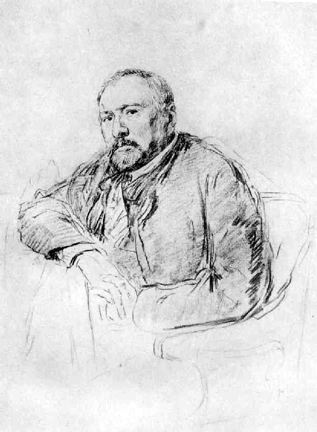 Portrait of writer Nikolai Semyonovich Leskov. Pencil on Paper.